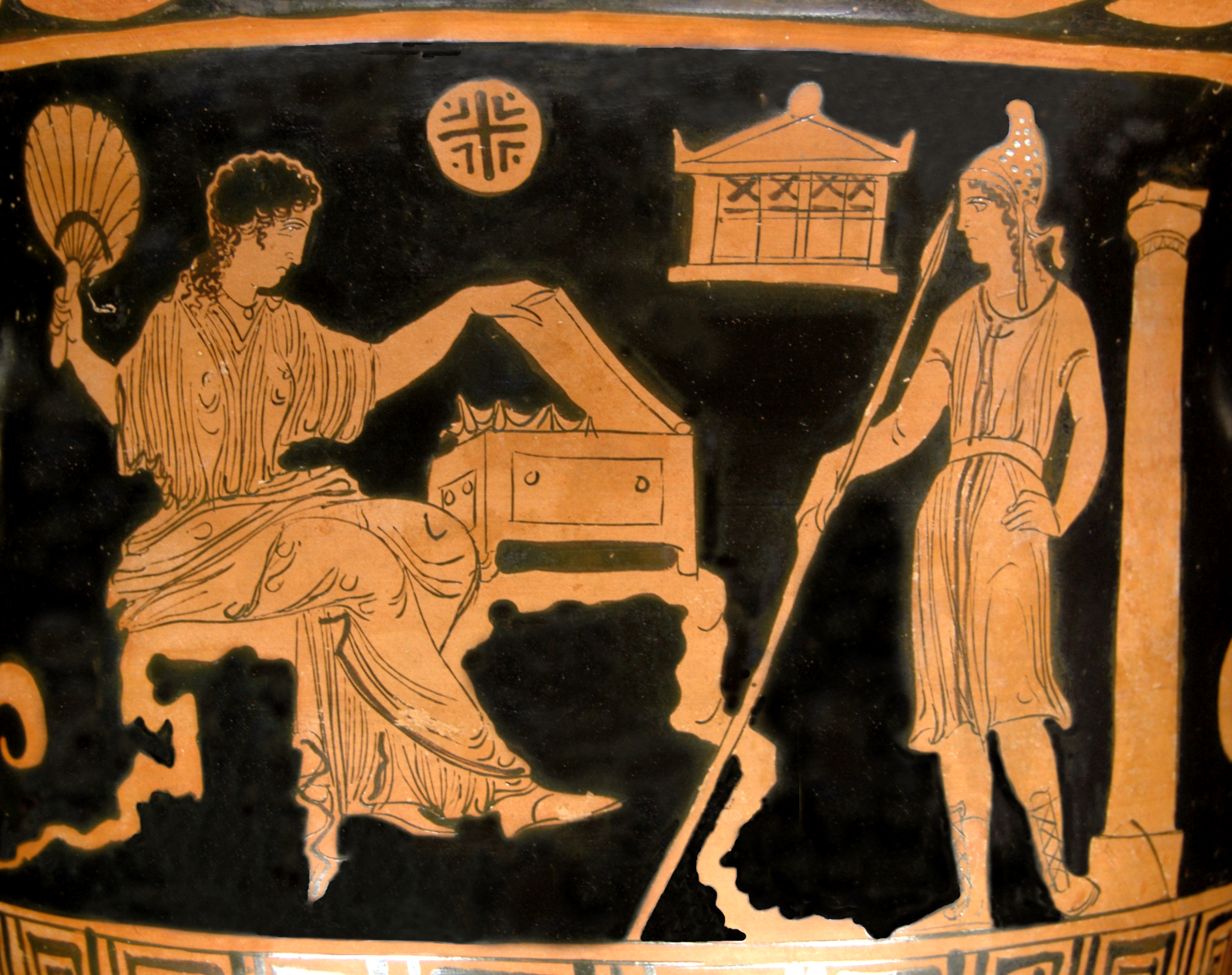 Helen and Paris. Side A from an Apulian (Tarentum?) red-figure bell-krater, 380–370 BC.